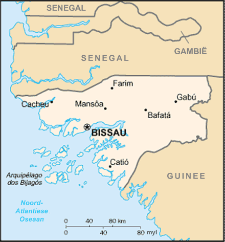 An Afrikaans map of Guinea-Bissau.